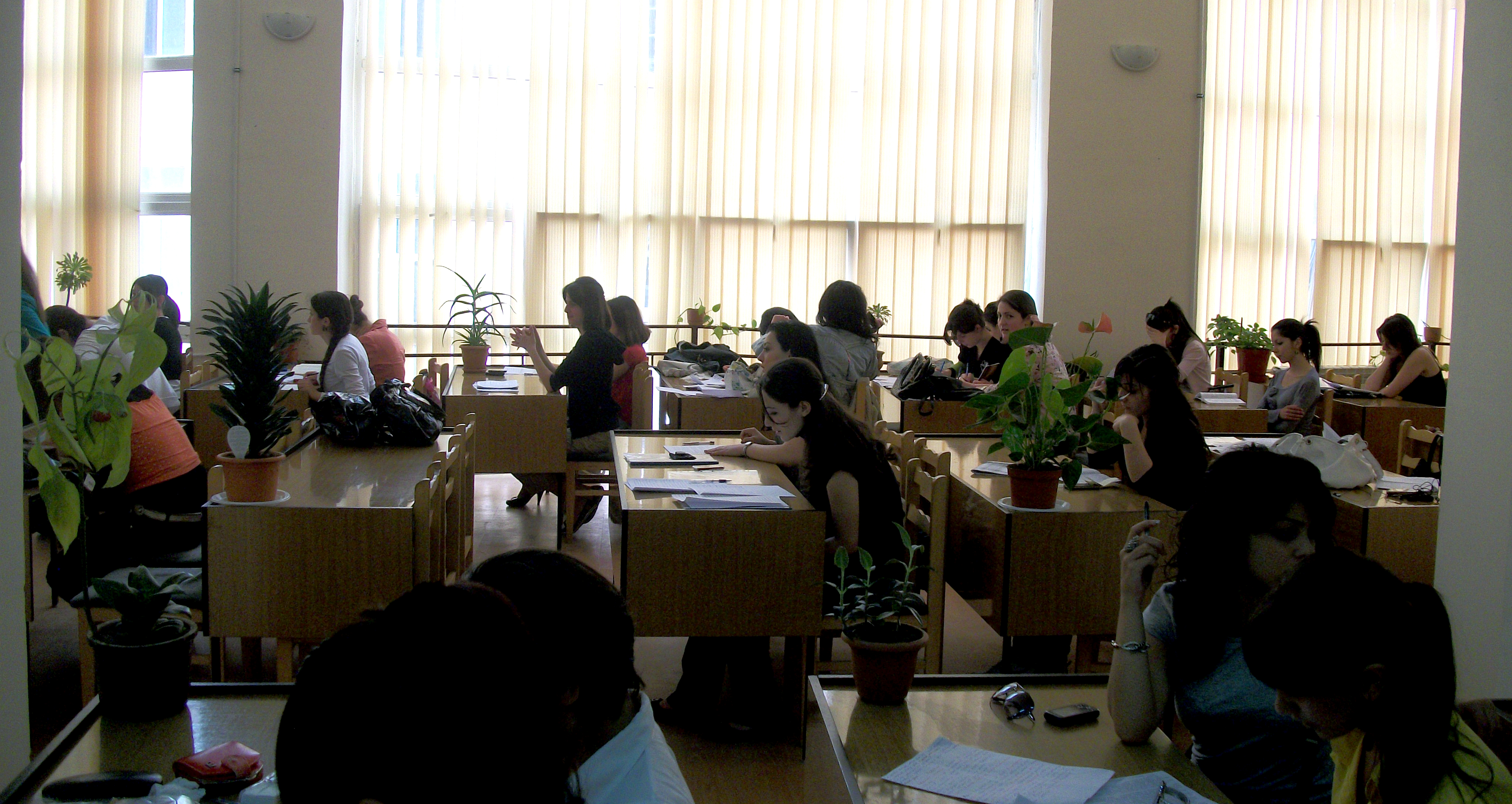 library